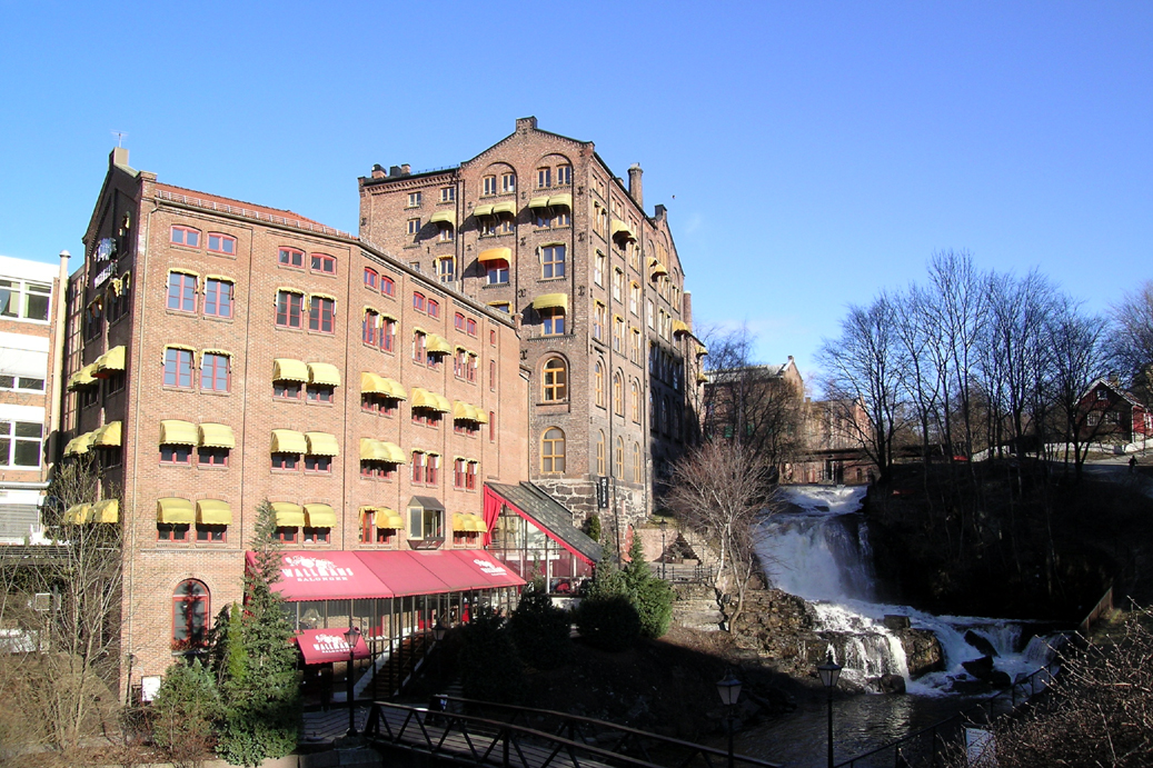 Nedre Vøyen spinning mill. Founded 1845 as Norway's first mechanical spinning mill. Present building erected 1889. Newer wing in the foreground from 1986.